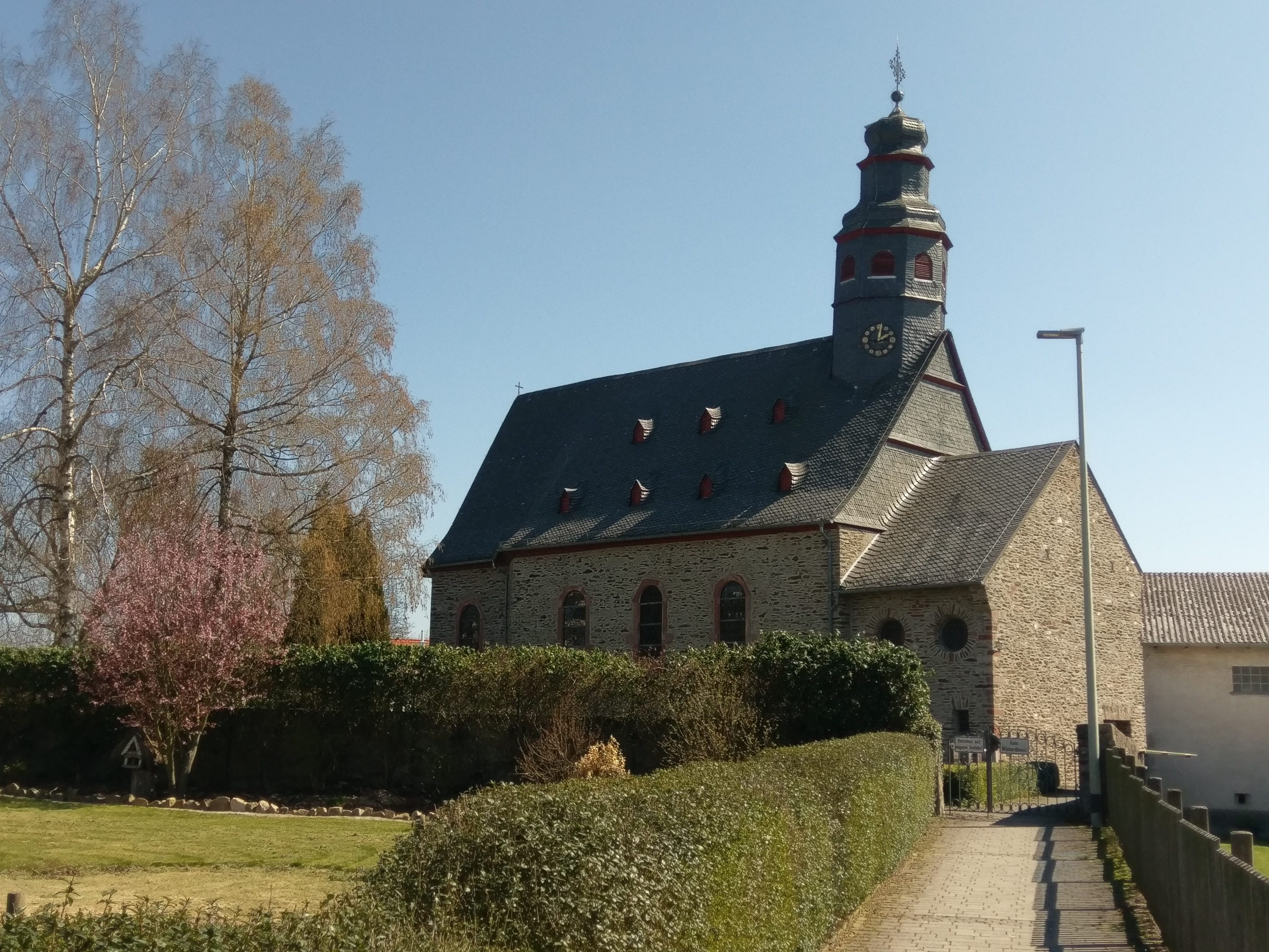 Church of St. Katharina at Ransel, Lorch, Rheingau